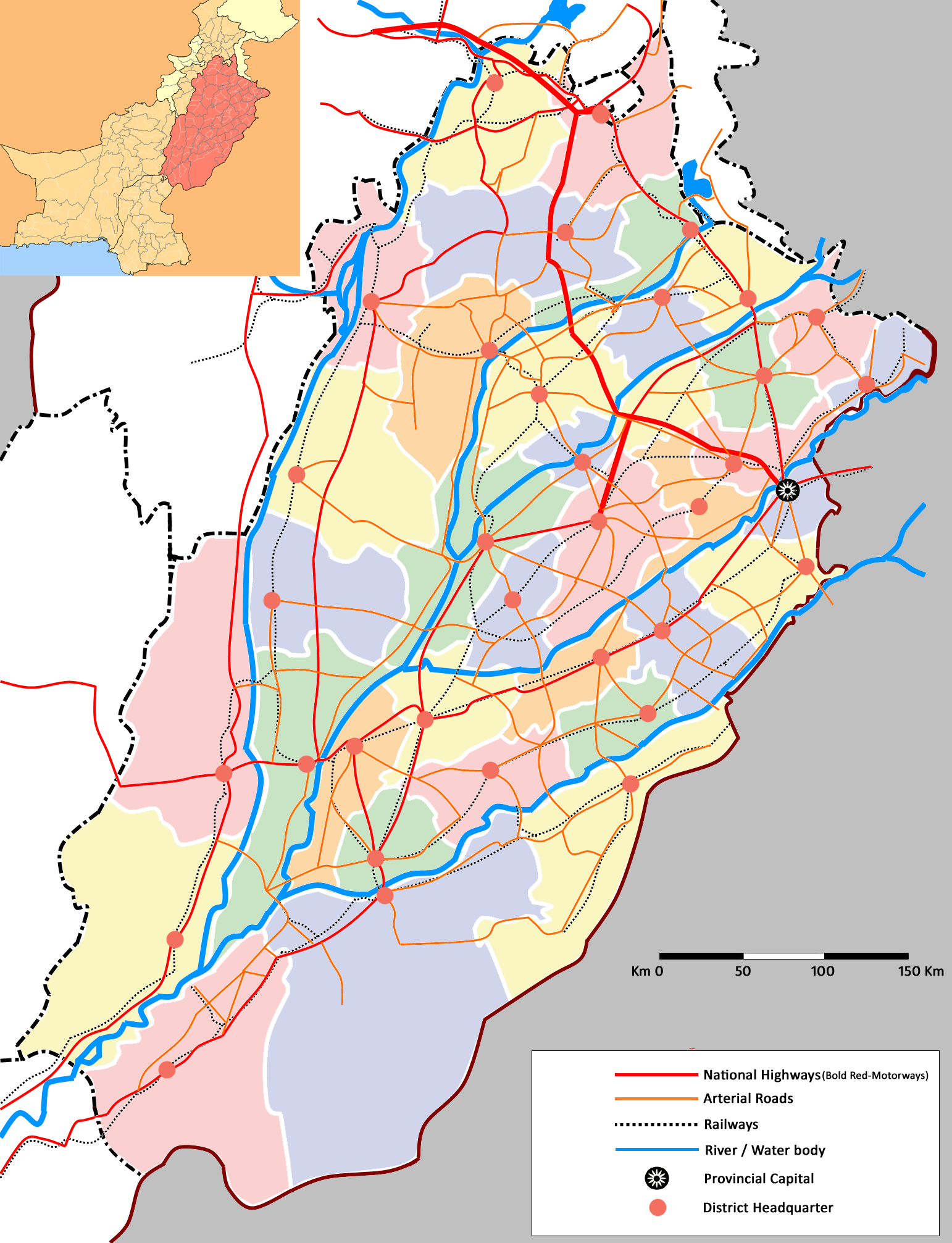 Map of the Province of the Punjab in Pakistan, indicating Districts, Rivers, Major and Arterial Roads and Railways.